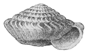 Drawing of apertural view of a shell of Careoradula perelegans